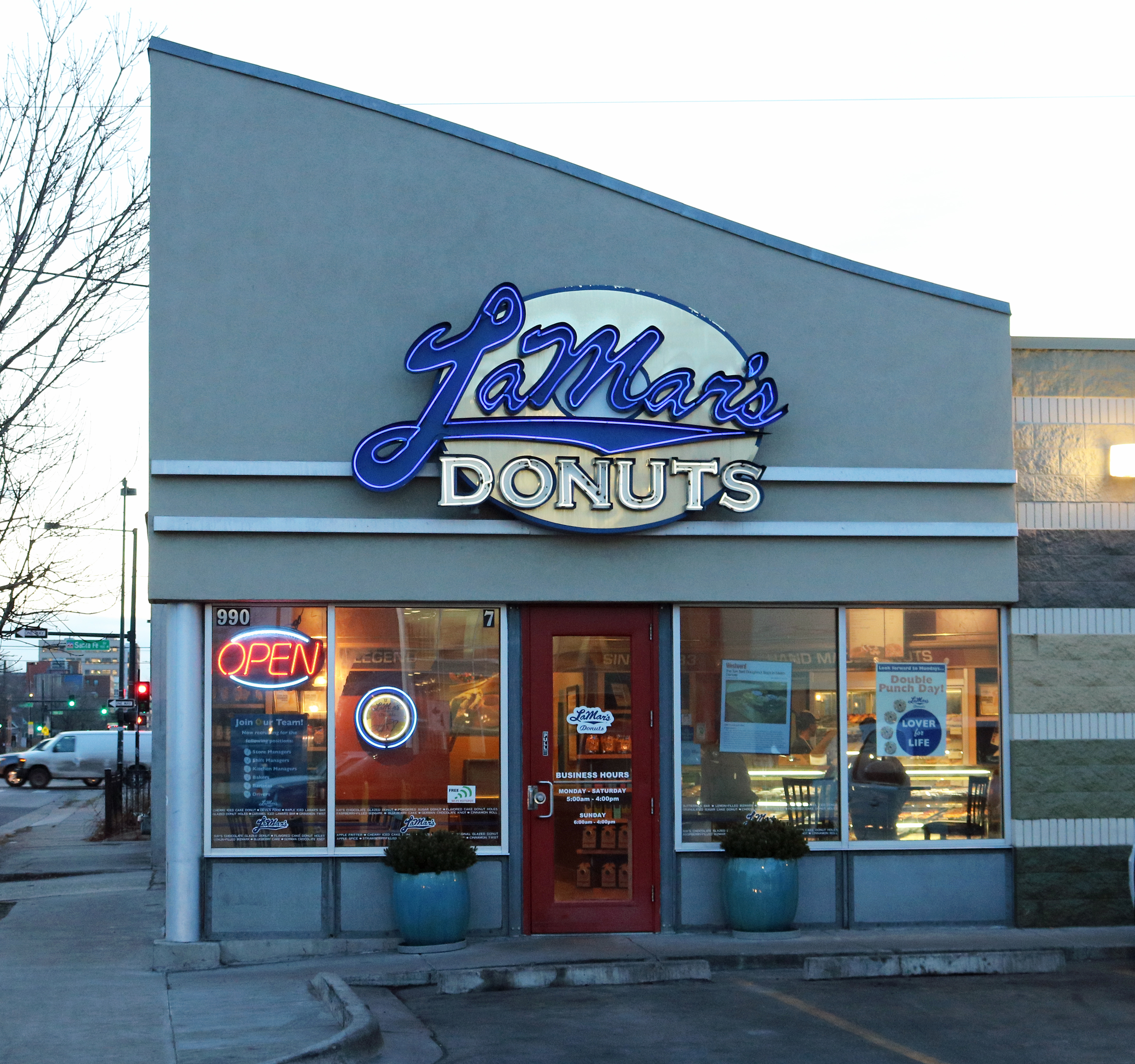 The LaMar's Donuts store located at 990 West 6th Avenue in Denver, Colorado.